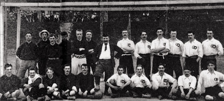 Évence Coppée Trophy team picture; first match of Belgium and France national football teams in 1904. French team (white shirts): back row, l-r: Guichard (goalkeeper), Verlet, Canelle, G. Bilot, Davy, C. Bilot. Front row, l-r: Mesnier, Royet, Garnier, Cyprès, Filez.